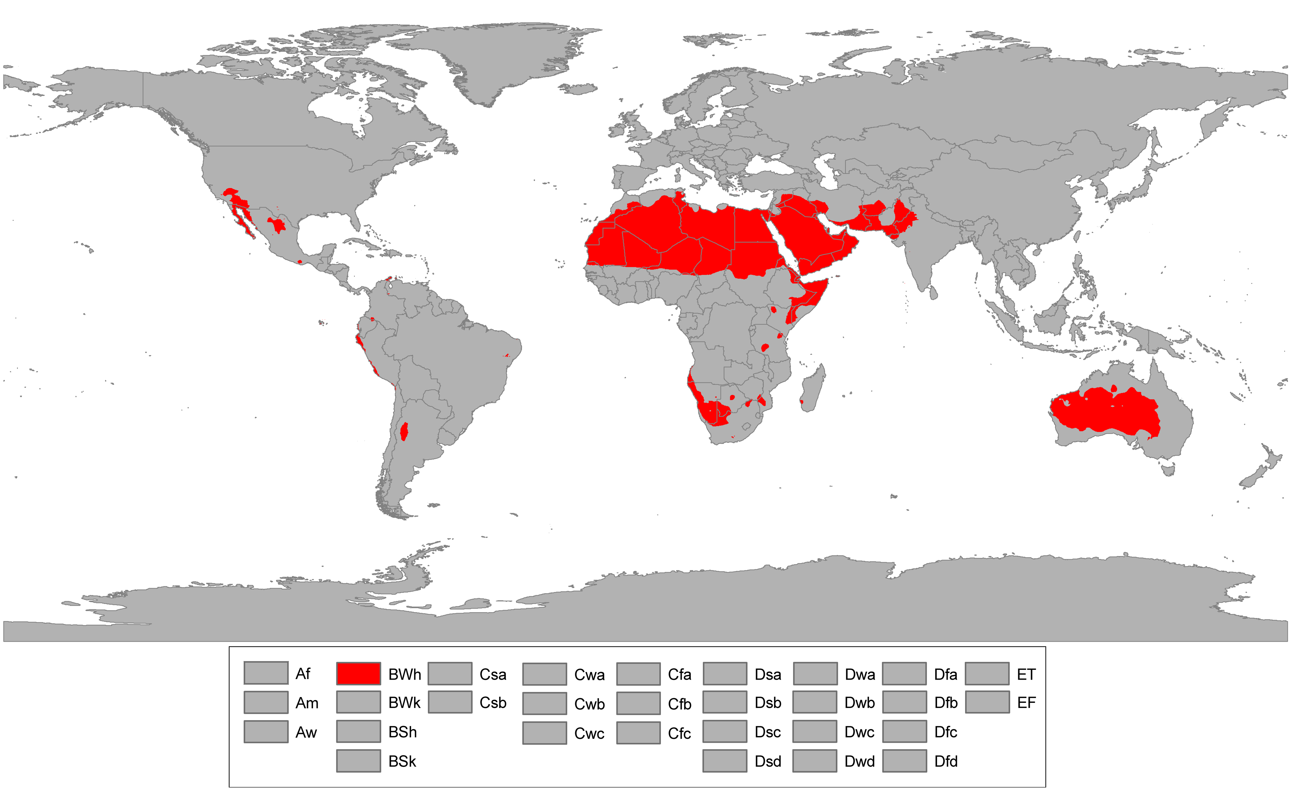 Updated world map of the Köppen-Geiger climate classification. Hot desert climate (BWh)